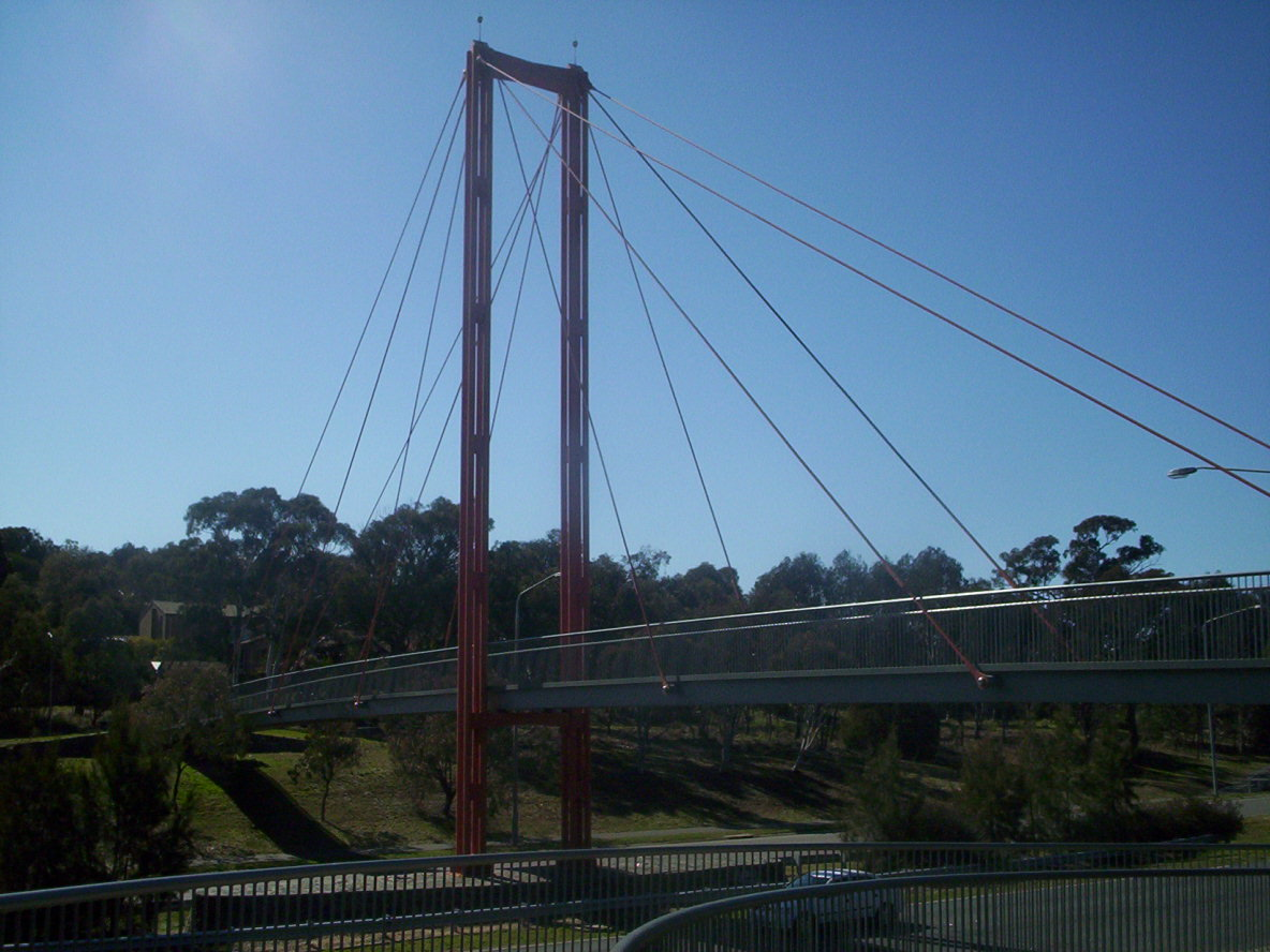 Footbridge connects Aranda and Bruce in Canberra. I took the photo Cfitzart 13:20, 26 August 2005 (UTC)